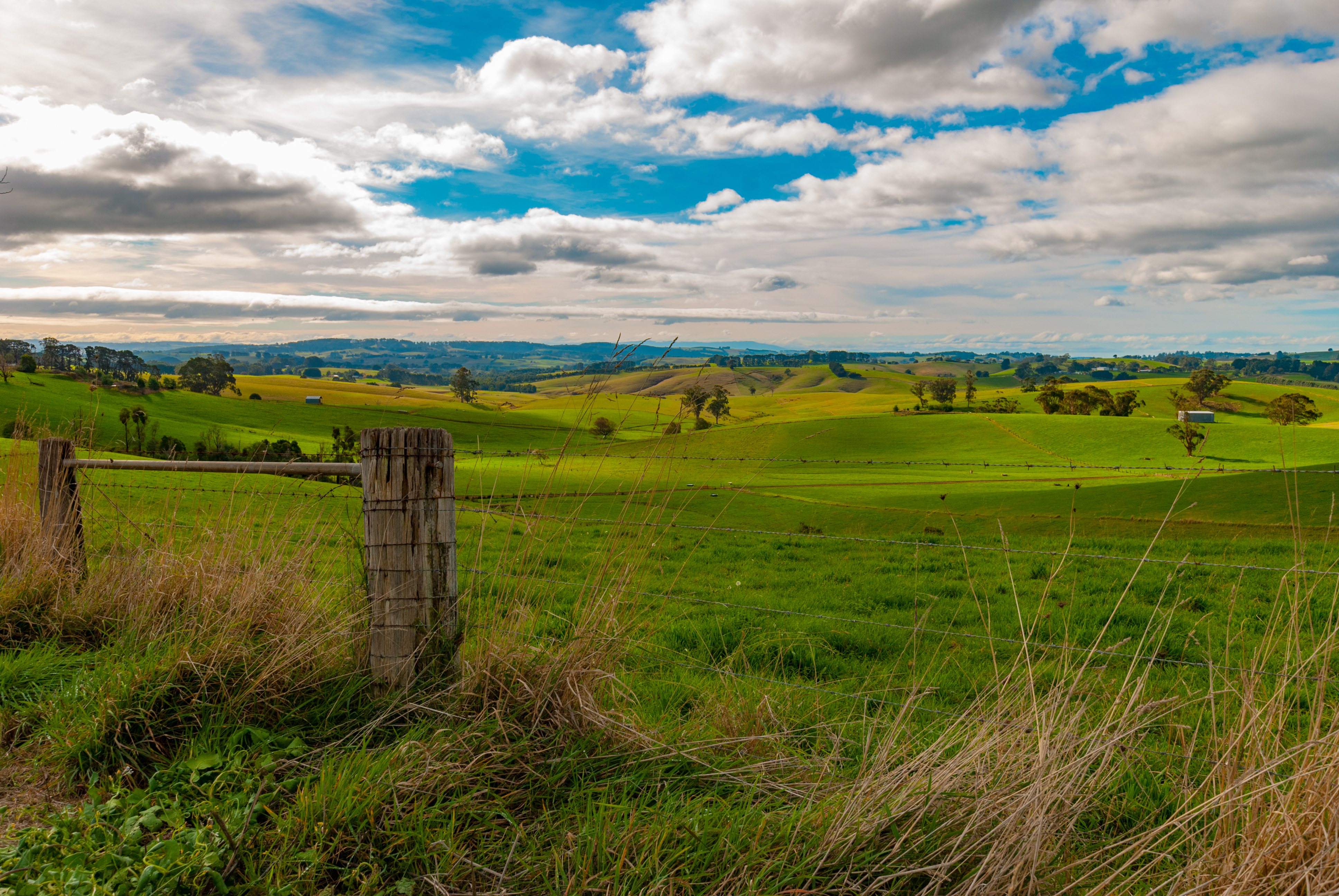 View over rolling farmland towards Mirboo North